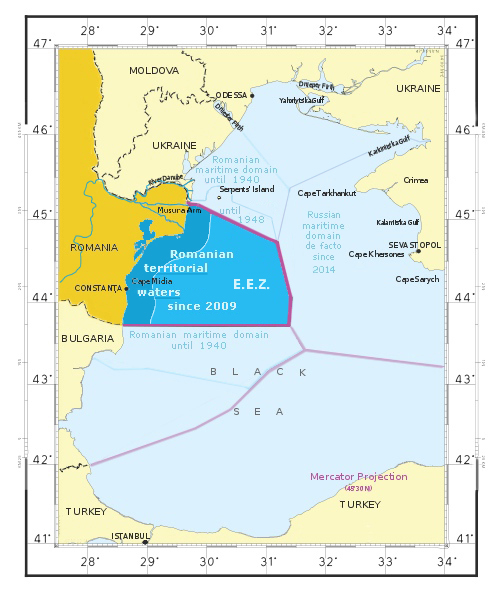 Romanian territorial waters (Craiova treaty 1940 with Bulgaria, ICJ delimitation Feb. 2009 with Ukraine). Background since DieBuche : ICJ Romania vs. Ukraine.svg